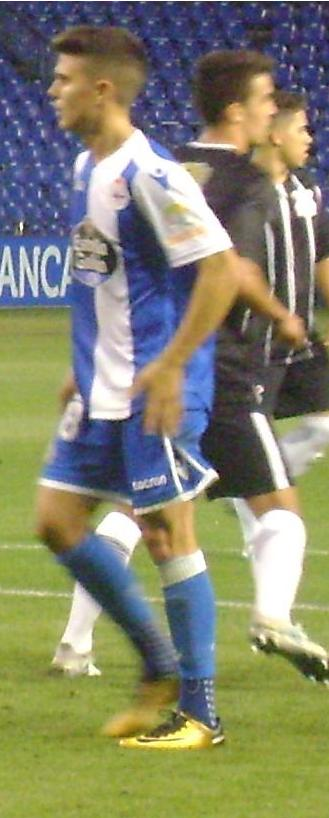 Pinchi